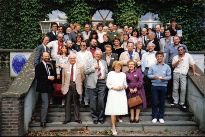 This is my photograph of delegates to the Aquatic Ape Conference held in Valkenburg, Netherlands in August 1987.